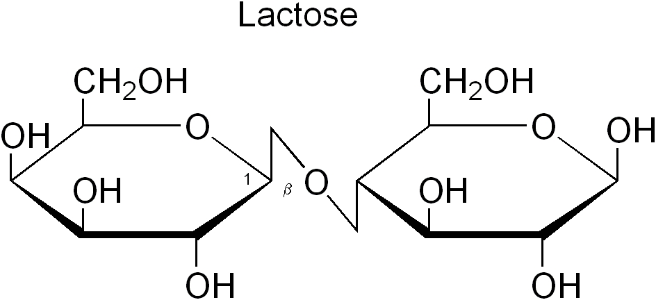 simplified lactose chemical structure